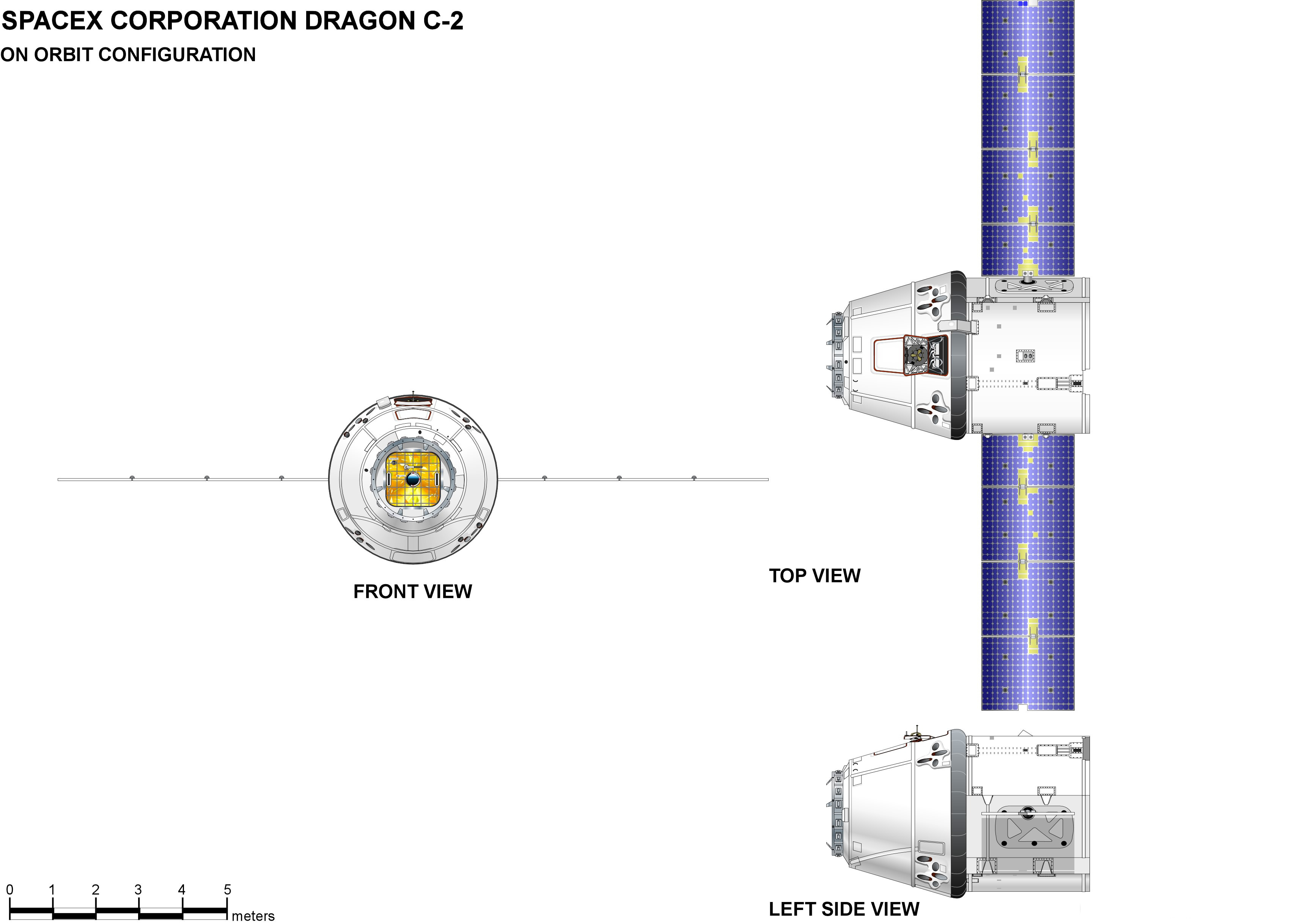 Dragon CRS 3 views